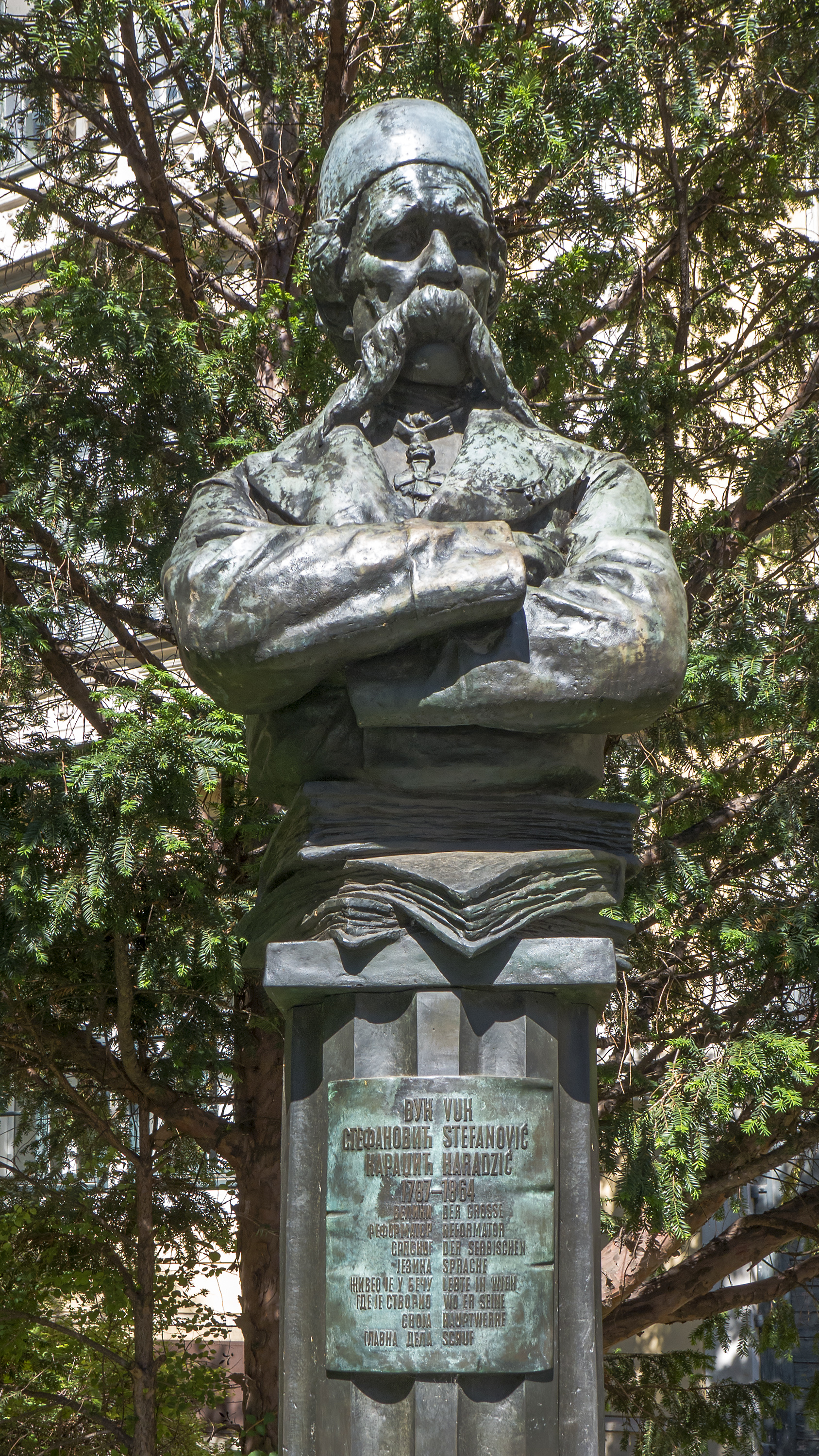 Vuk Karadžić Monument in Vienna 3